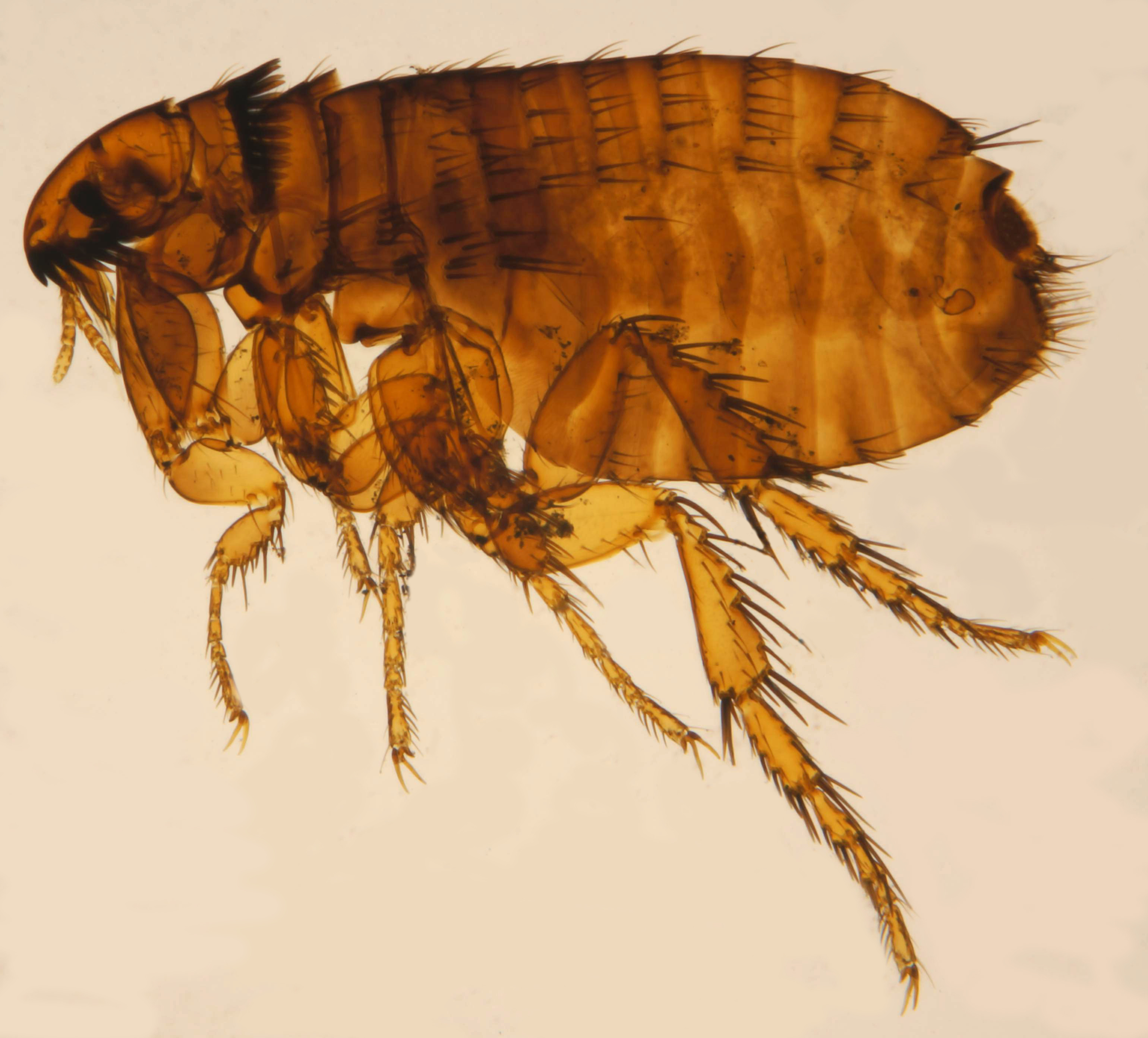 Ctenocephalides felis, female, stored in ZSM collection (insecta varia)